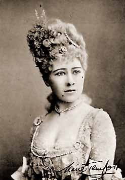 Marie Tempest in the title role of Dorothy, 1886